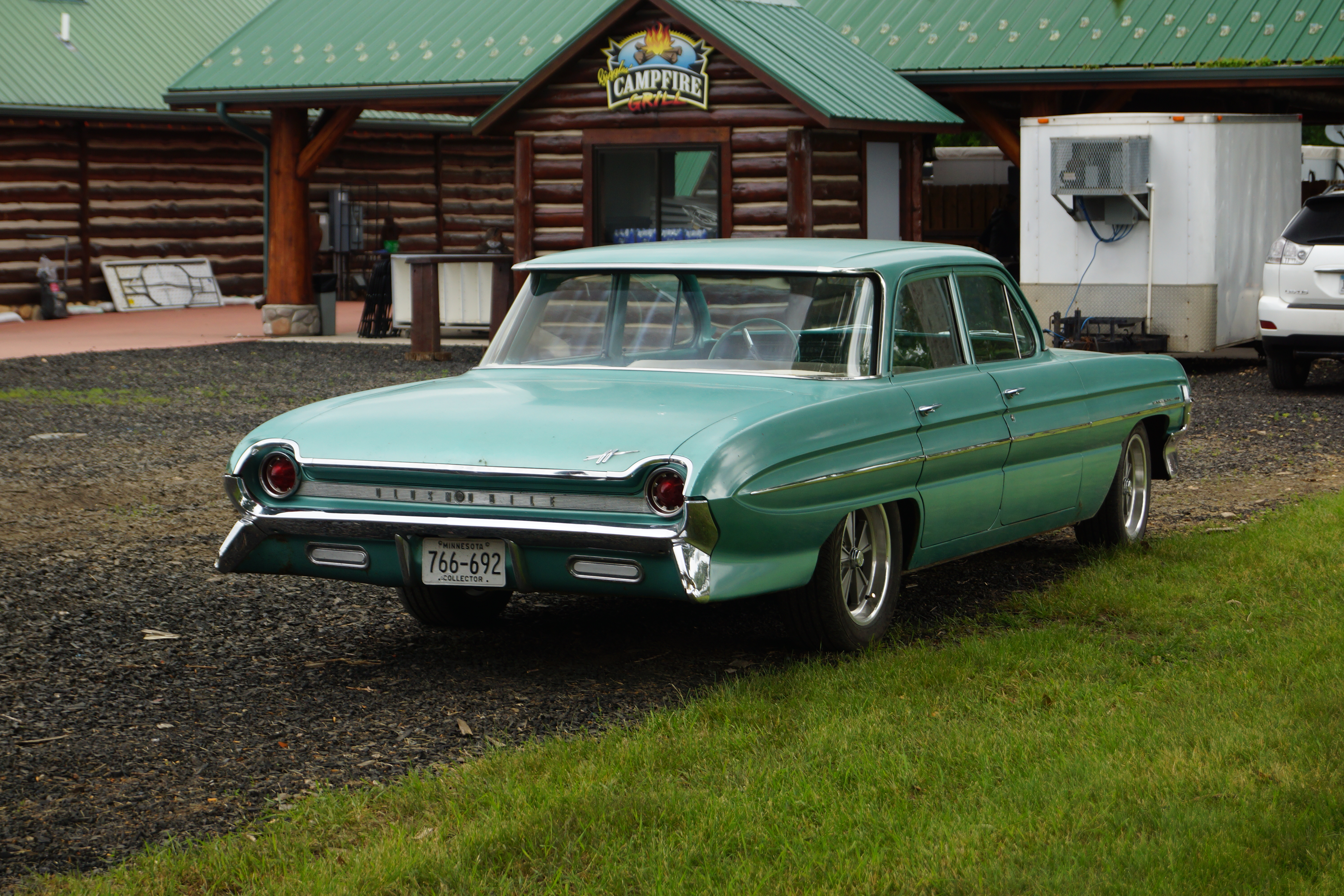 Minnesota Street Rod Association (MSRA) “BACK TO THE 50′s” 44th Annual Car Show June 23-25, 2017 Minnesota State Fairgrounds St. Paul Minnesota.